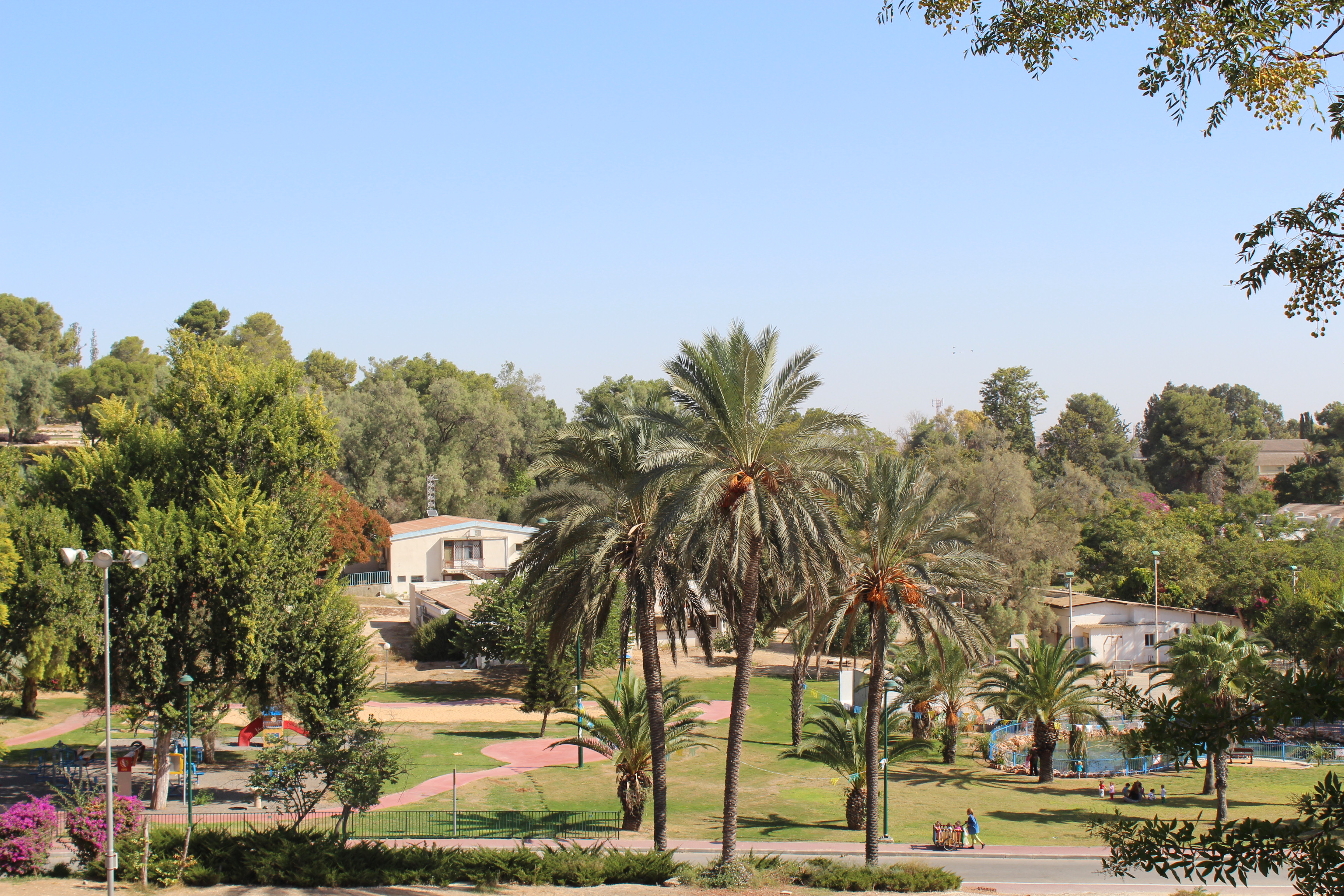 Yad Mordechai kibutz, Israel